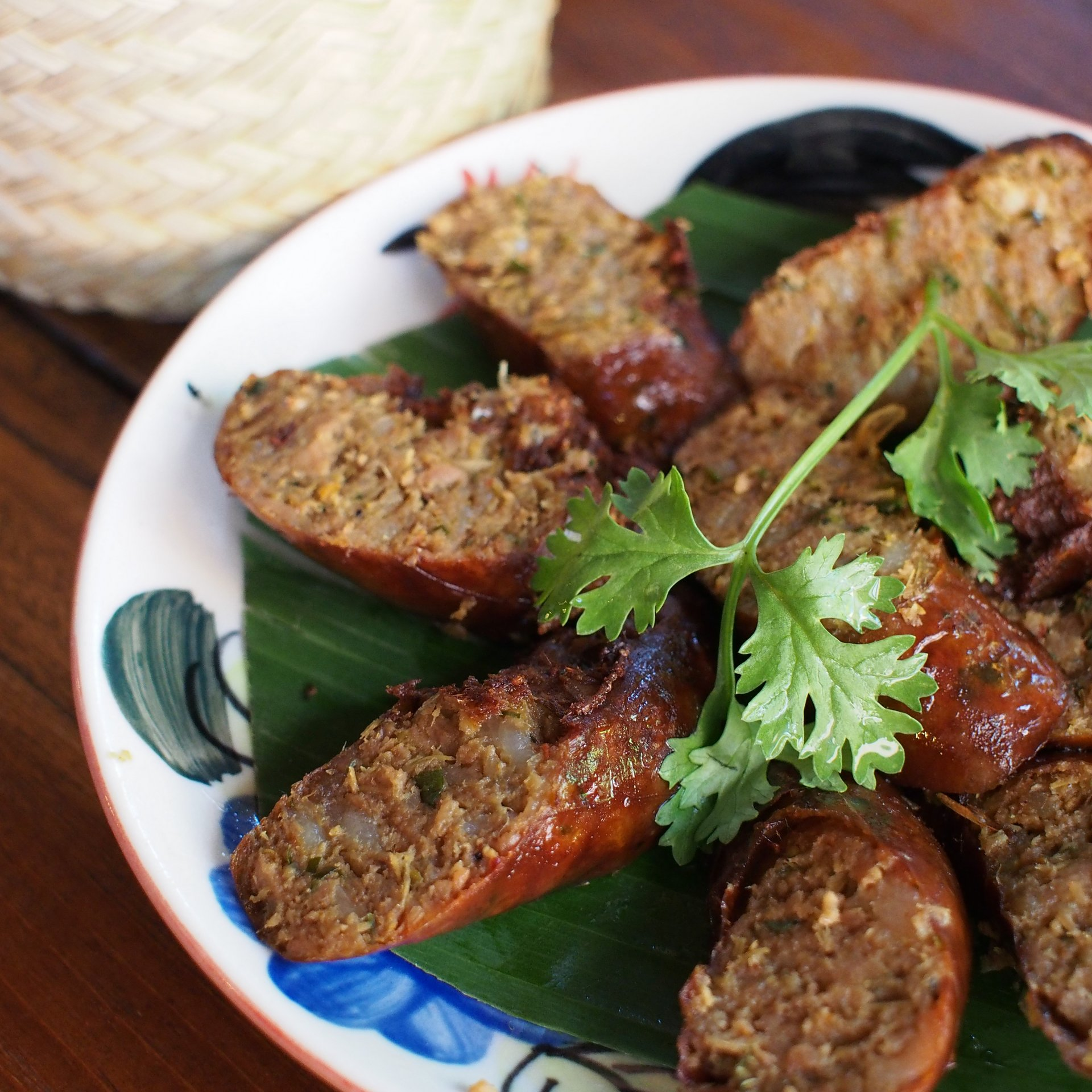 Sai ua (Thai script: ไส้อั่ว) is a type of sausage from Chiang Mai which is highly regarded in the rest of Thailand. It is a slightly spicy grilled pork sausage containing red curry spices and fresh herbs. The taste of finely shredded kaffir lime leaves, coriander leaves and lemon grass permeates the dish. Those shown here are about 25mm (1 inch) thick.